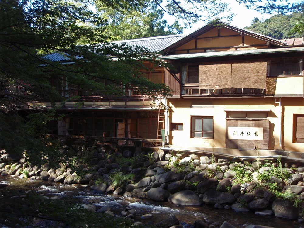 Arai Ryokan is a Japanese style hotel in Izu, Shizuoka Prefecture、Japan. Shuzenji River in the foreground.